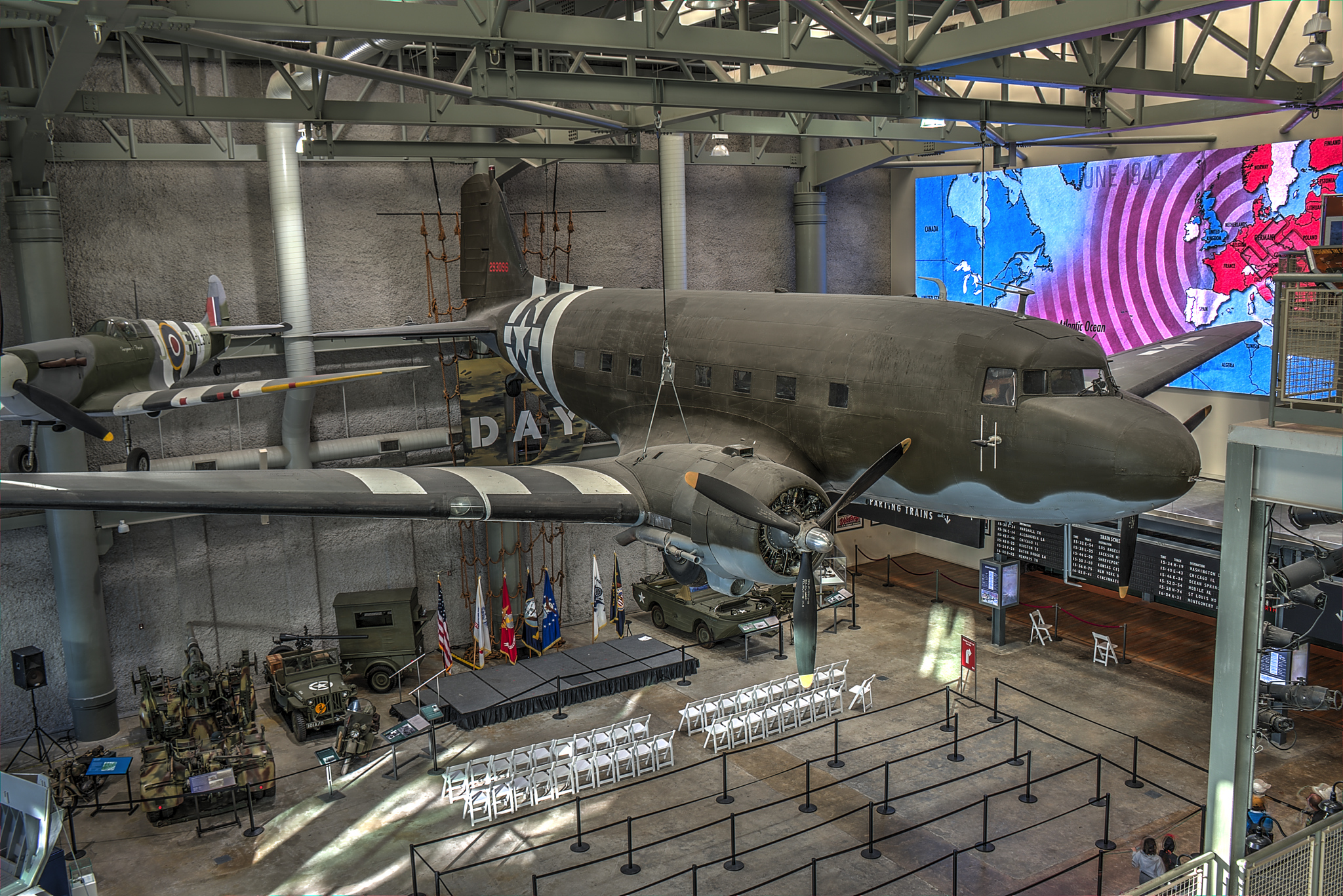 Douglas C-47